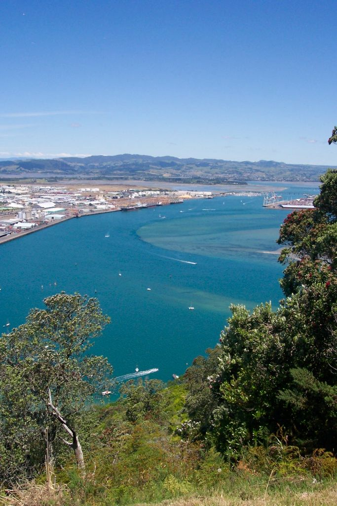 View Mount Maunganui and Tauranga in 2006.